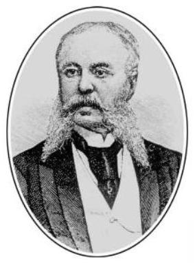 Nikolaj Dmitrievich Osten-Sacken (1831 -1912), russian ambassador in Berlin